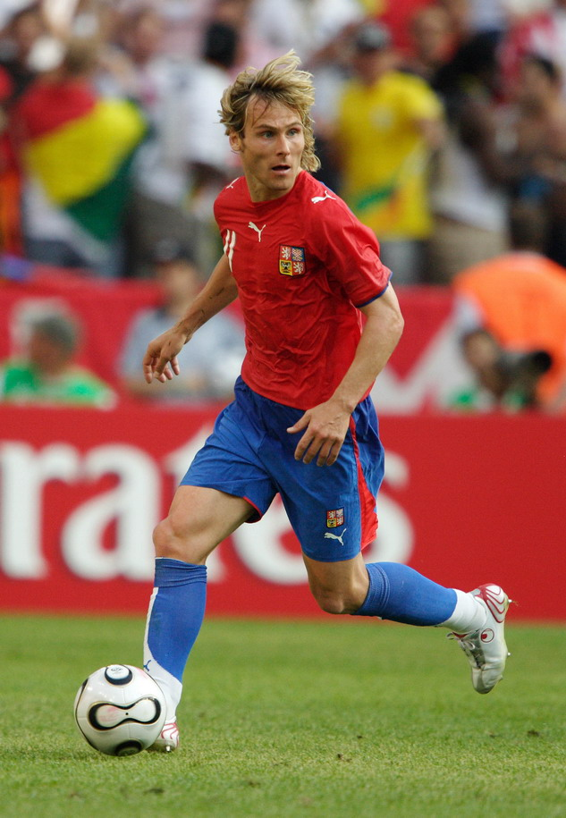 Footballer Pavel Nedvěd playing for the Czech Republic against Ghana at the 2006 FIFA World Cup